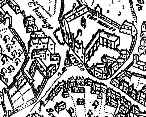 John Norden's Map of Westminster, 1593, engraved by Pieter Van den Keere. Original size 9.5 x 6.75 inches, published in Norden's "Middlesex", dated 1593. Norden was born c. 1548, and was made Surveyor of His Majesty's Woods in 1609. Detail of Charing Cross and surrounding area. The map is oriented with north-west to the top: Whitehall is to the bottom left, and the Strand to the bottom right.